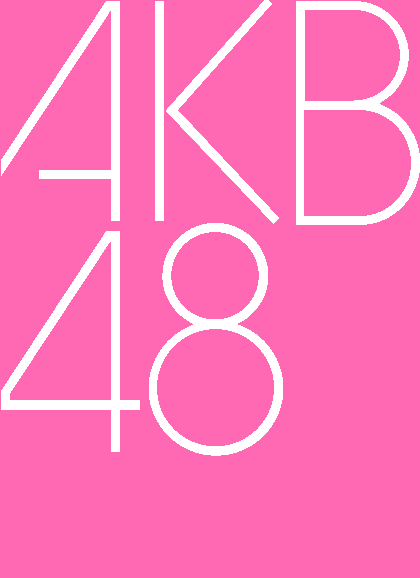 Logo of the theatre group AKB48(Pink version).